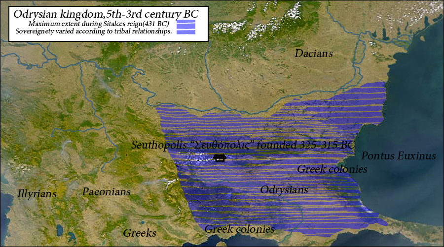 Map of the Odrysian kingdom Own work,data from Cambridge ancient history D. M. Lewis, John Boardman, Simon Hornblower, Cambridge University Press, 1994, ISBN 0521233488, p. 444 The Oxford Classical Dictionary by Simon Hornblower and Antony Spawforth,ISBN-10: 0198606419,page 1514,"the kingdom of the Odrysae the leading tribe of Thrace extented ver present-day Bulgaria, Turkish Thrace (east of the Hebrus) and Greece between the Hebrus and Strymon except for the coastal strip with its Greek cities" The Odrysian Kingdom of Thrace: Orpheus Unmasked (Oxford Monographs on Classical Archaeology) by Z. H. Archibald,1998,ISBN-10-0198150474 The Thracians 700 BC-AD 46 (Men-at-Arms) by Christopher Webber and Angus McBride,2001,ISBN-10:1841763292 Blank map,nasa